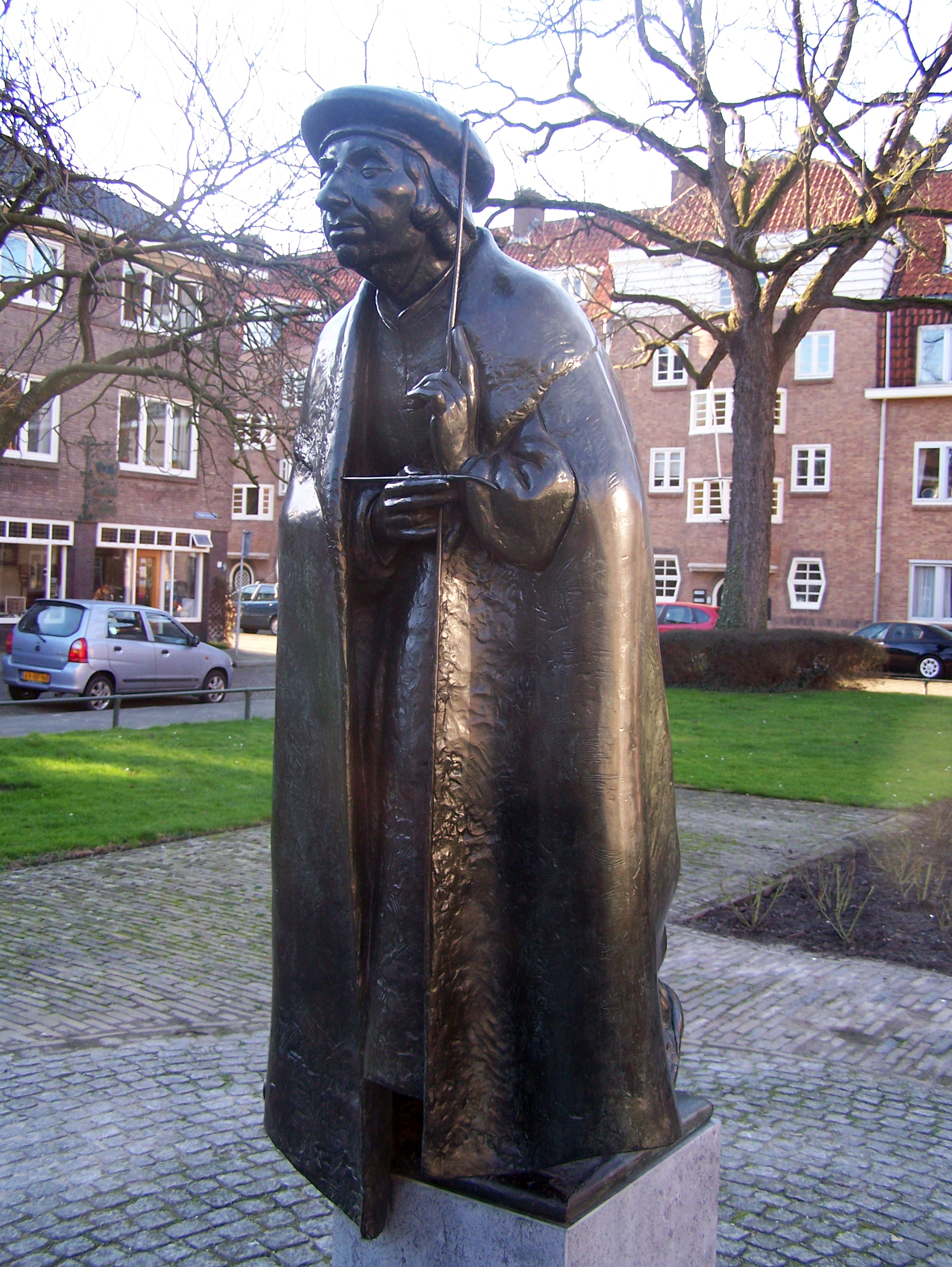 Statue of the Dutch painter Jan van Scorel. Made by Herman Janzen in 1985. Placed at the Hobbemastraat in Utrecht in 1988.